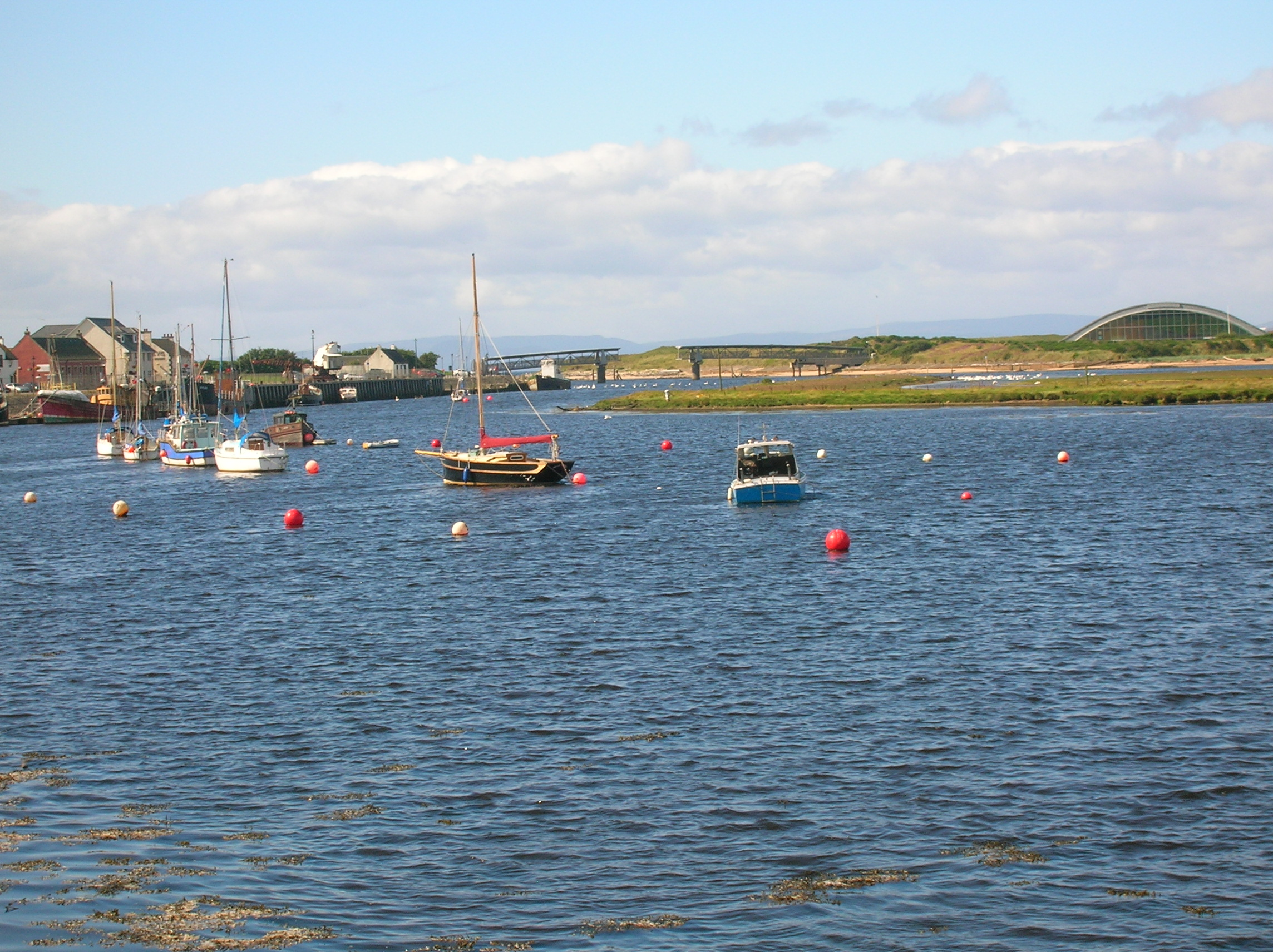 Irvine harbour looking seaward. The closed 'Big Idea' building and footbridge are to the right in the background. North Ayrshire, Scotland. Rosser 20:30, 26 August 2007 (UTC)